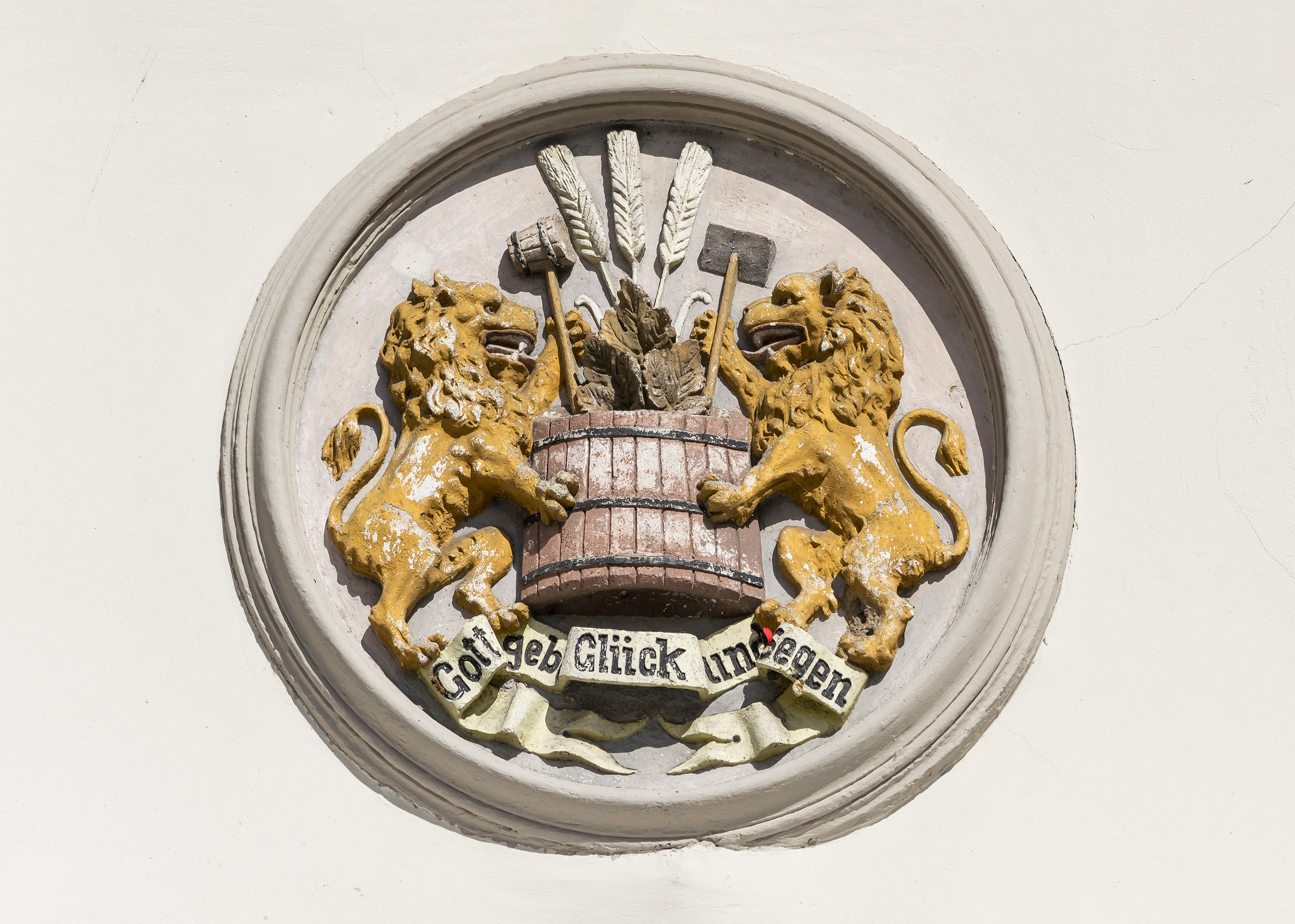 8 Market Square in Duszniki-Zdrój Ta fotografia przedstawia zabytek wpisany do rejestru zabytków pod numerem ID 592535